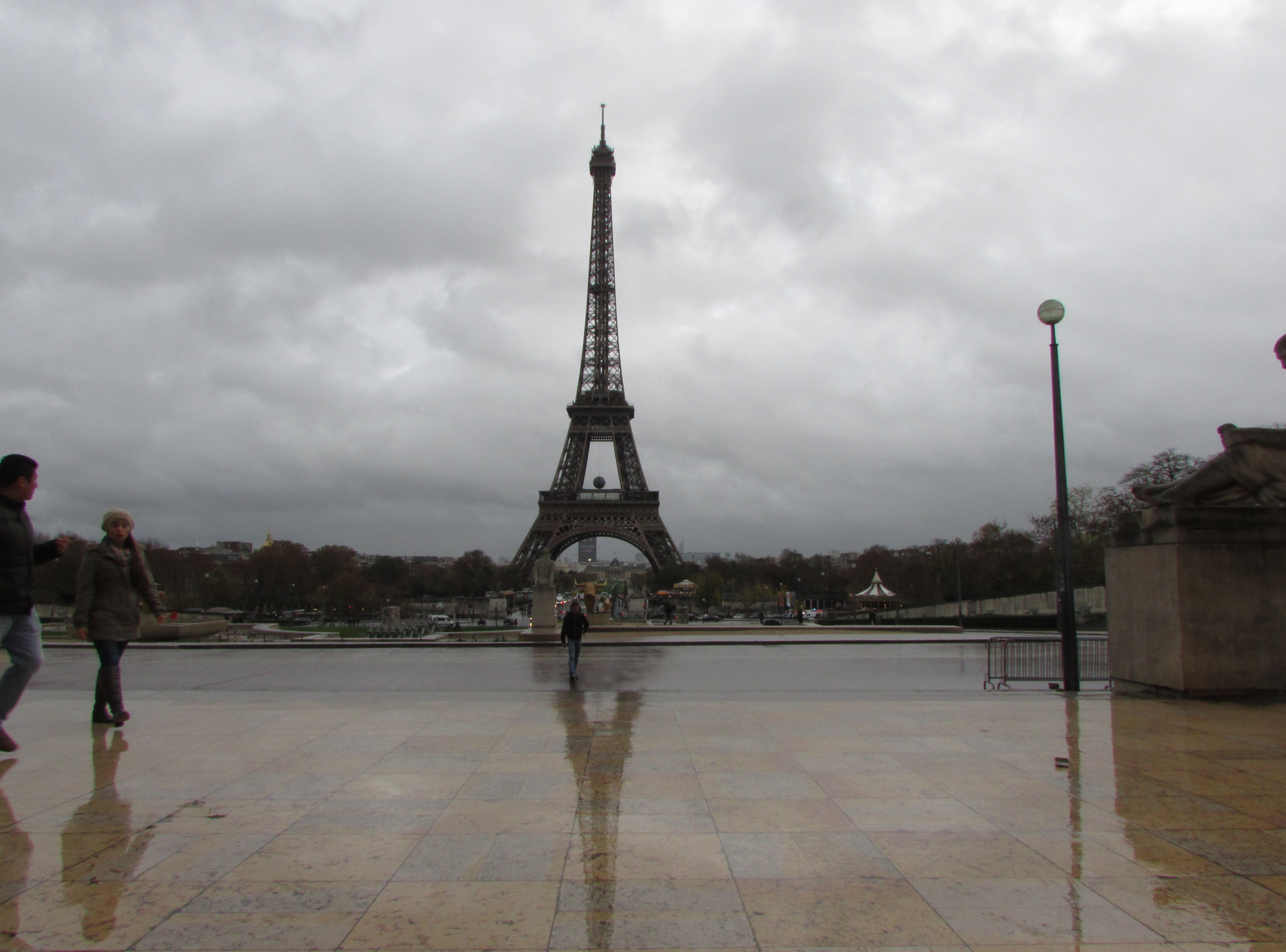 Eiffel Tower under cloudy sky